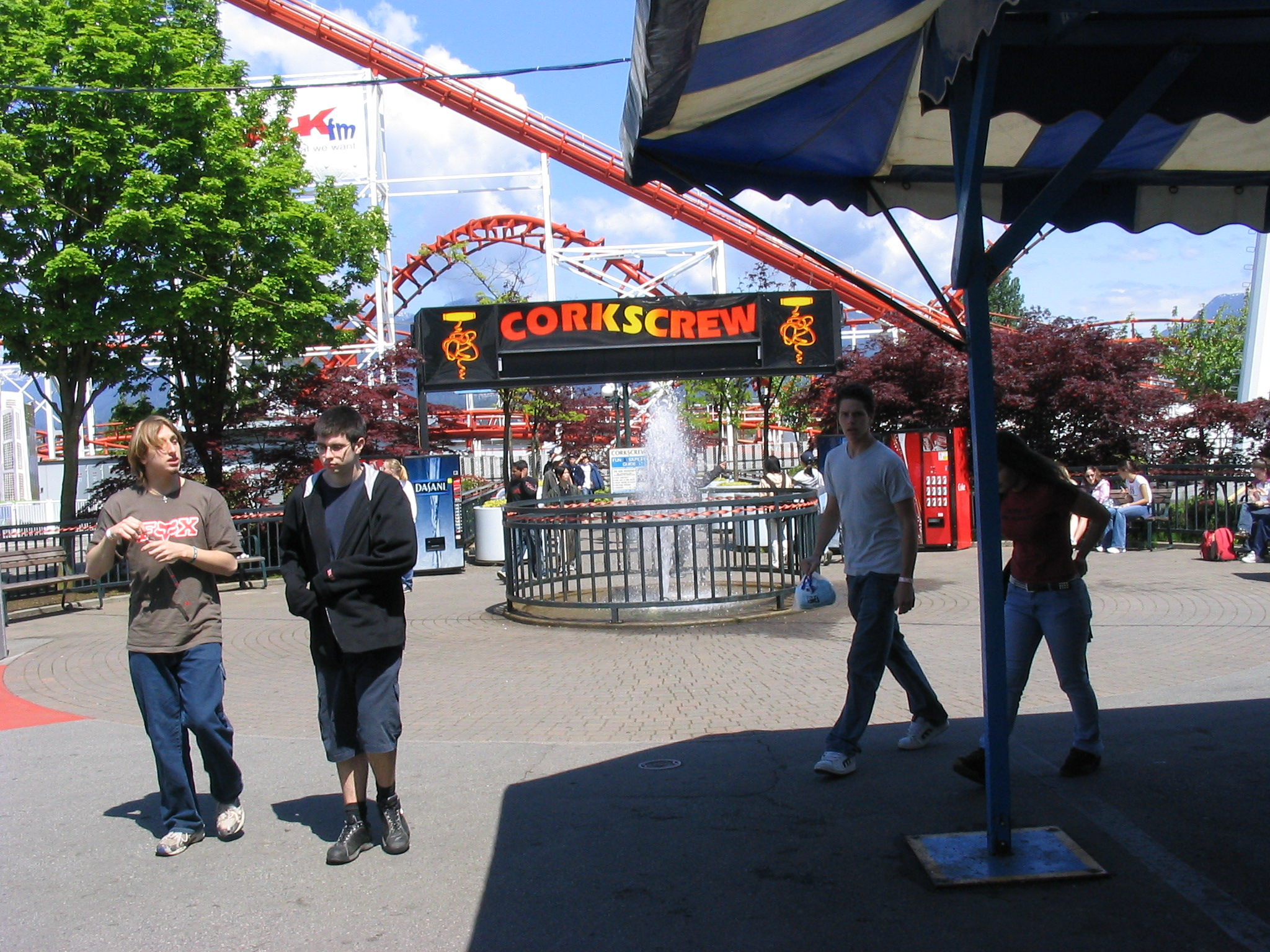 Entrance to the ride Corkscrew at Playland